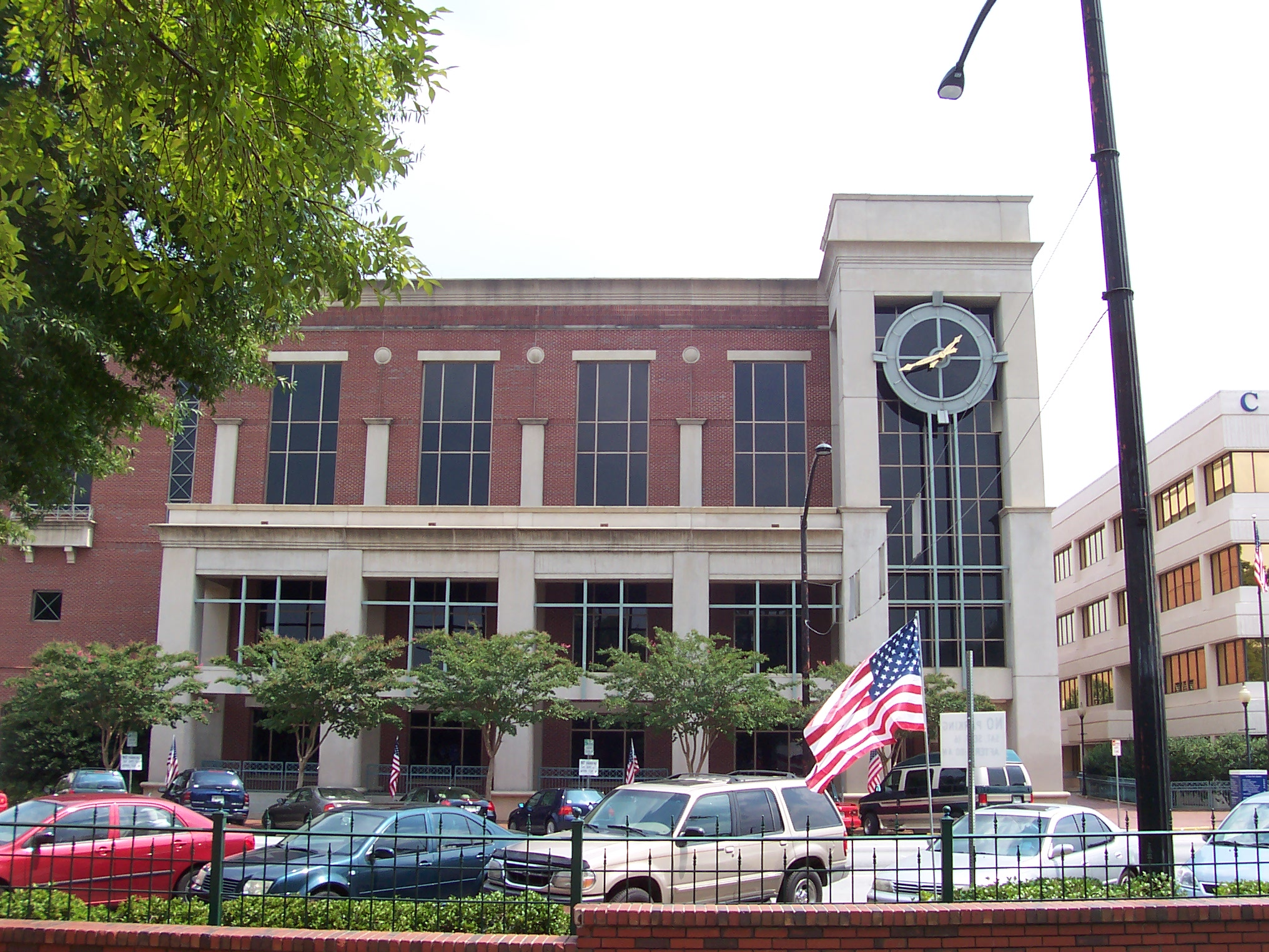 Cobb County Courthouse, Marietta, Georgia. Taken September, 2006.